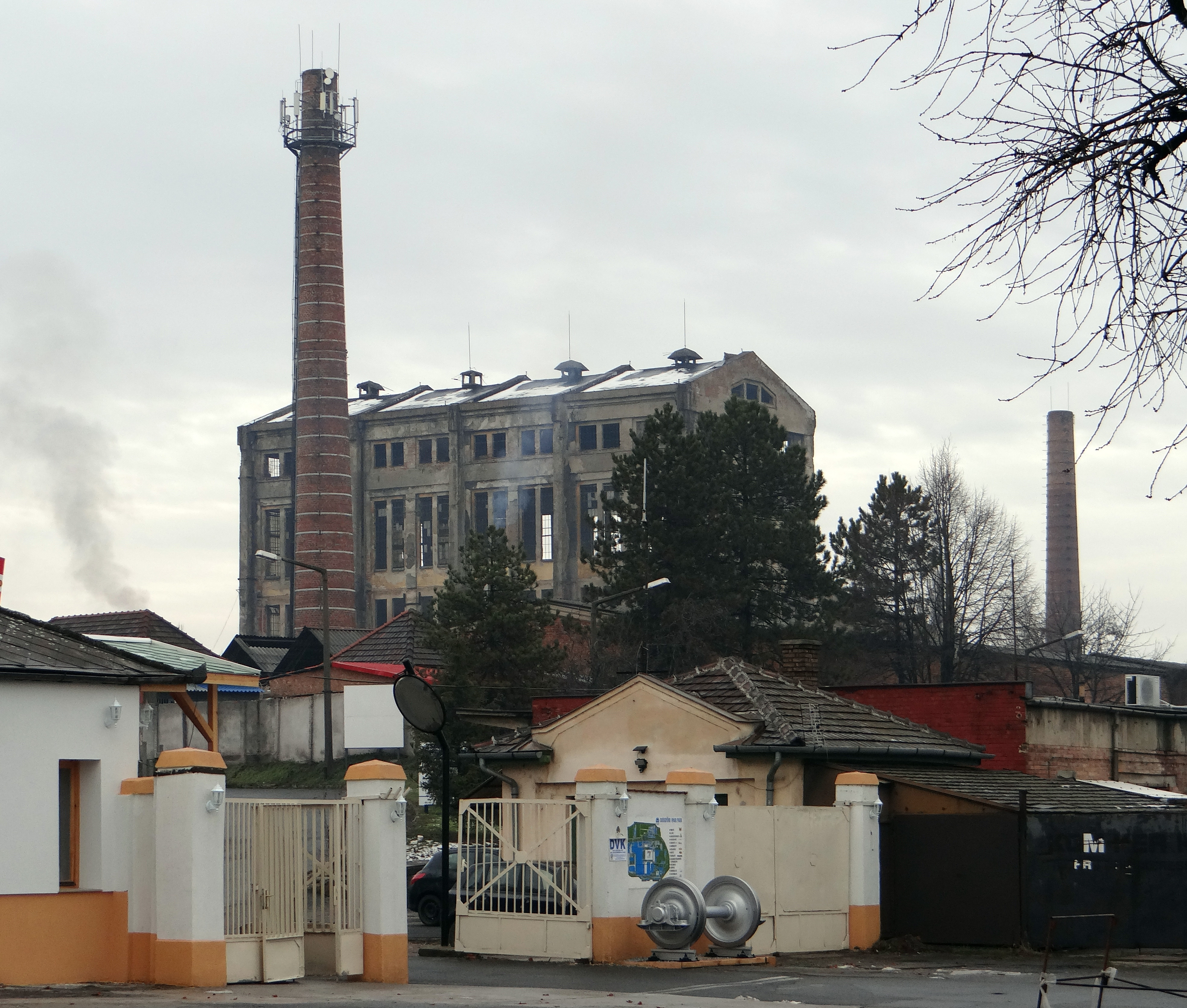 Old factory hall, Diósgyőr Machine Works (DIGÉP), Miskolc, Hungary